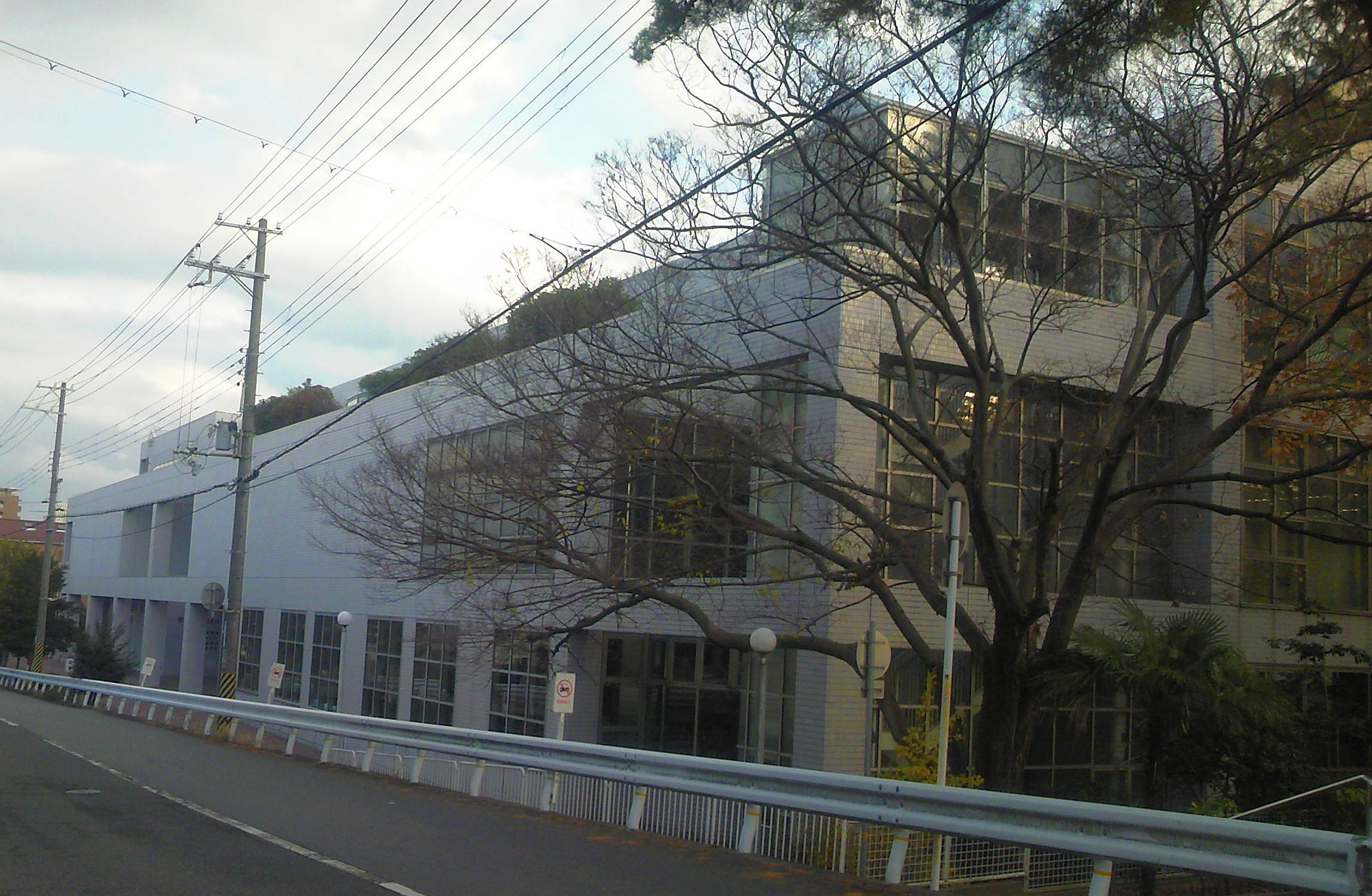 Nishinomiya city Central library (Nishinomiya city museum), Kawazoechō, Nishinomiya, Hyogo prefecture, Japan